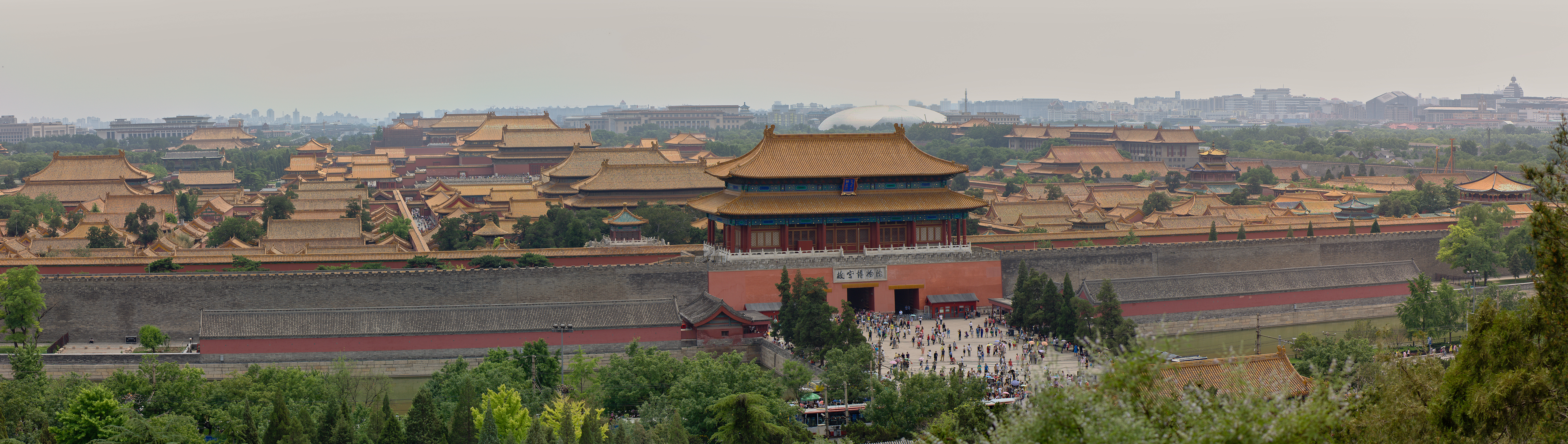 View of the Forbidden City from Jingshan Park (Beijing/China)